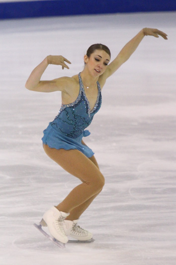 Francesca Rio at the 2010 World Junior Figure Skating Championships